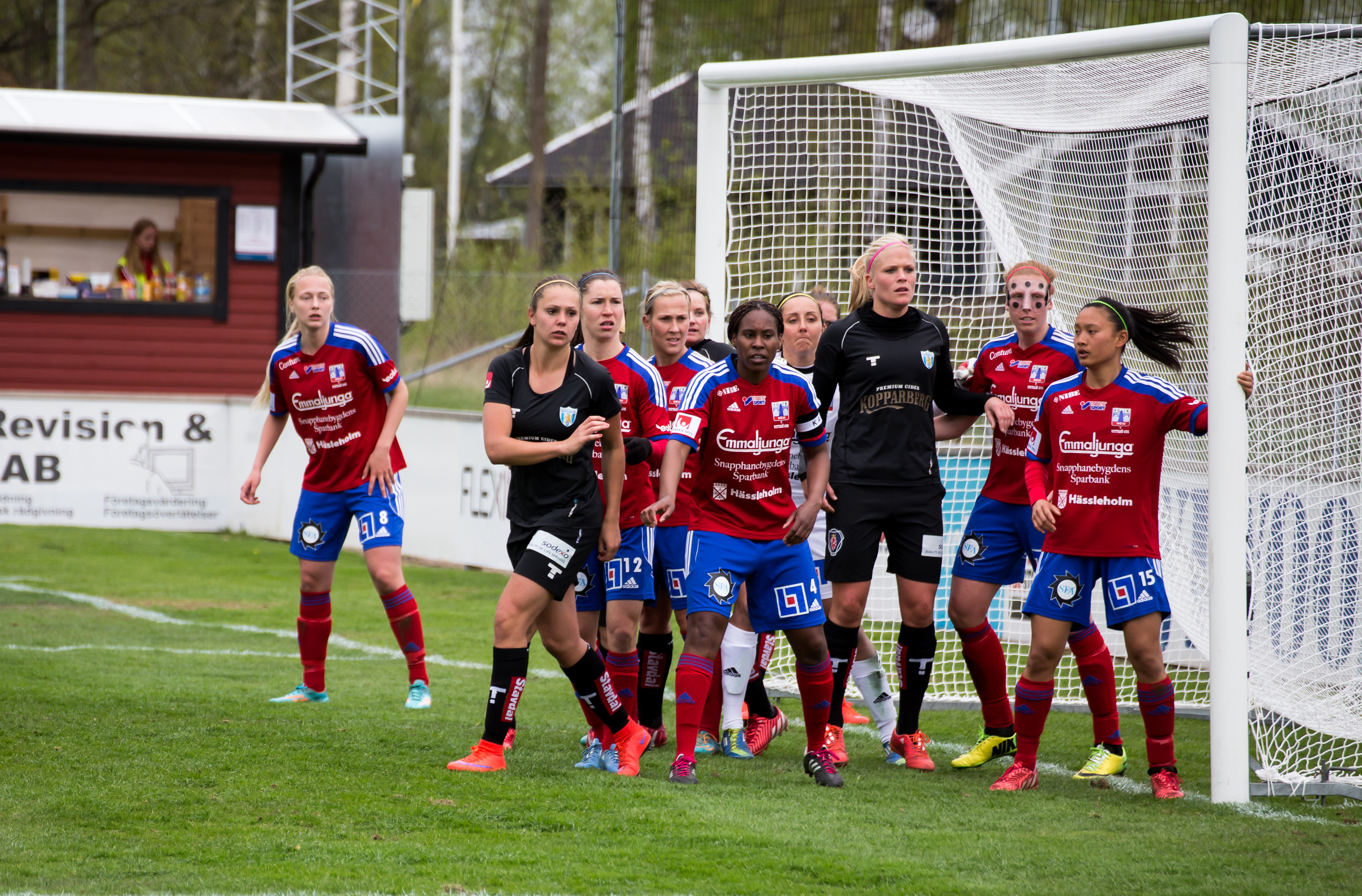 Swedsih association football team Vittsjö GIK in red preparing for a corner kick from Göteborg/Kopparberg FC.